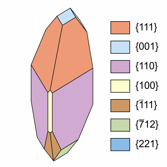 Steep pyramidal natrochalcite crystal. Reference: Charles Palache (1939), Kroehnkite and natrochalcite from Chile, American Journal of Science vol. 237, p. 452.